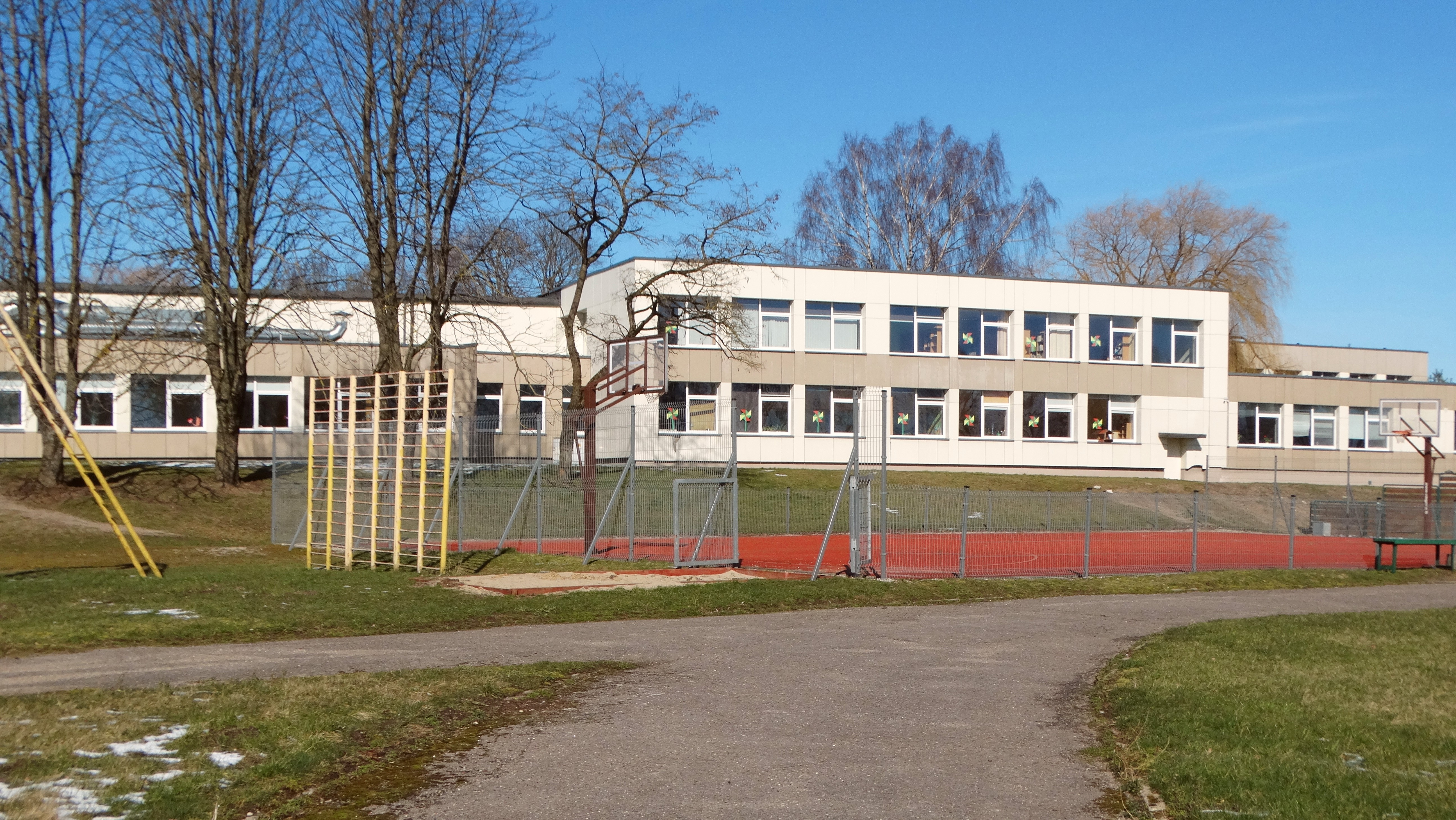 Dovilai, school, Klaipėda district, Lithuania